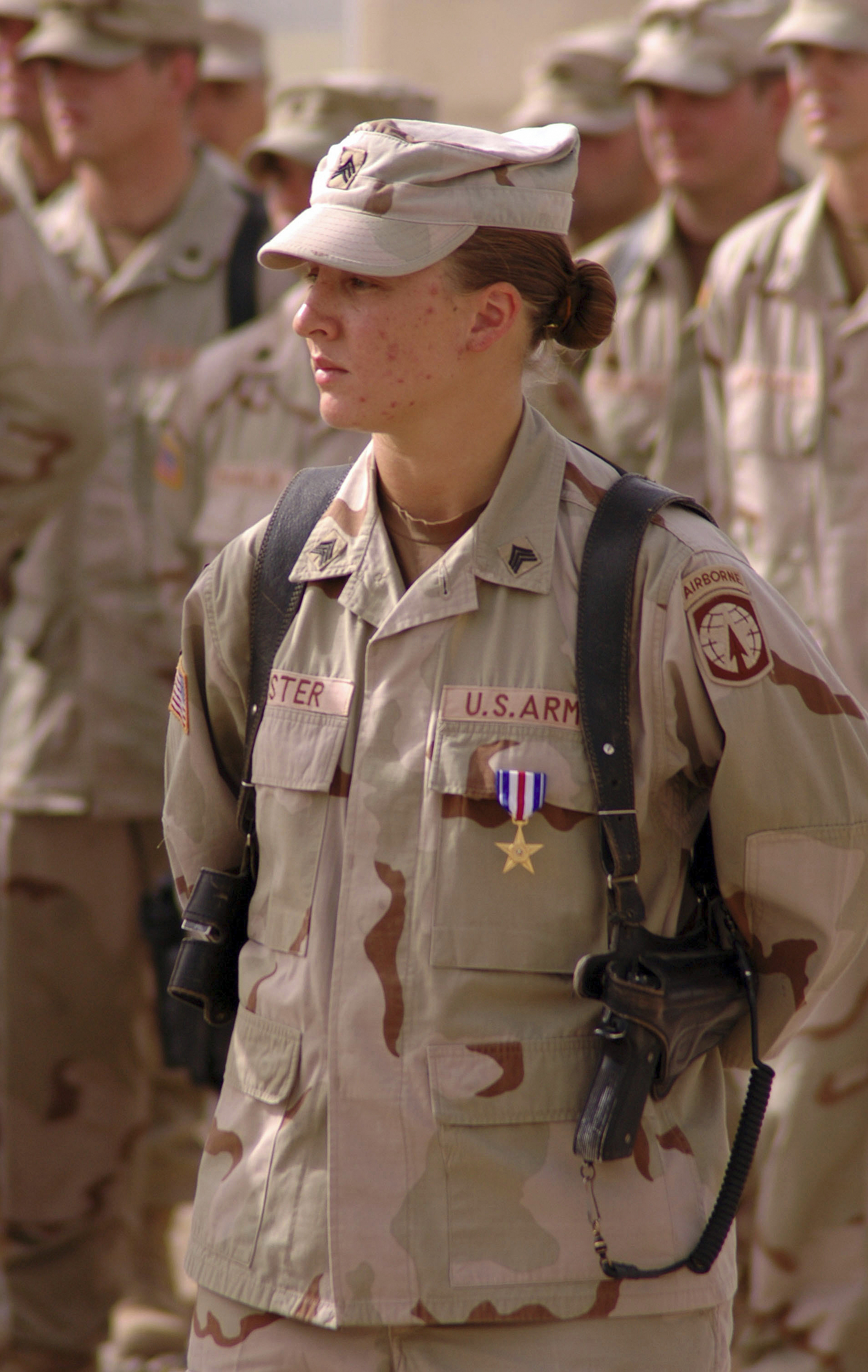 050616-A-5930C-013 Sgt. Leigh Ann Hester, vehicle commander, 617th Military Police Company, Richmond, Ky., stands at parade rest after receiving the Silver Star at an awards ceremony at Camp Liberty, Iraq, June 16, 2005. Hester is the first female Soldier serving in Operation Iraqi Freedom to receive the Silver Star. (U.S. Army photo by Spc. Jeremy D. Crisp.)